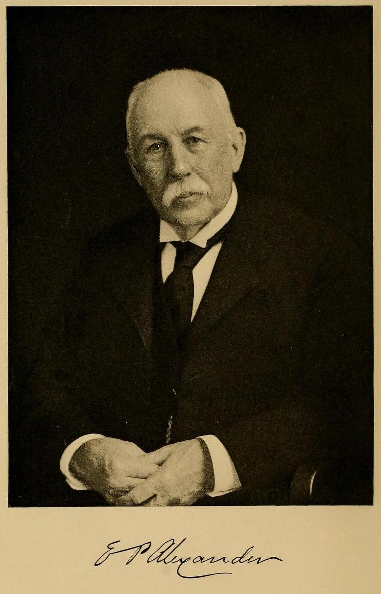 Edward Porter Alexander, circa 1900s.